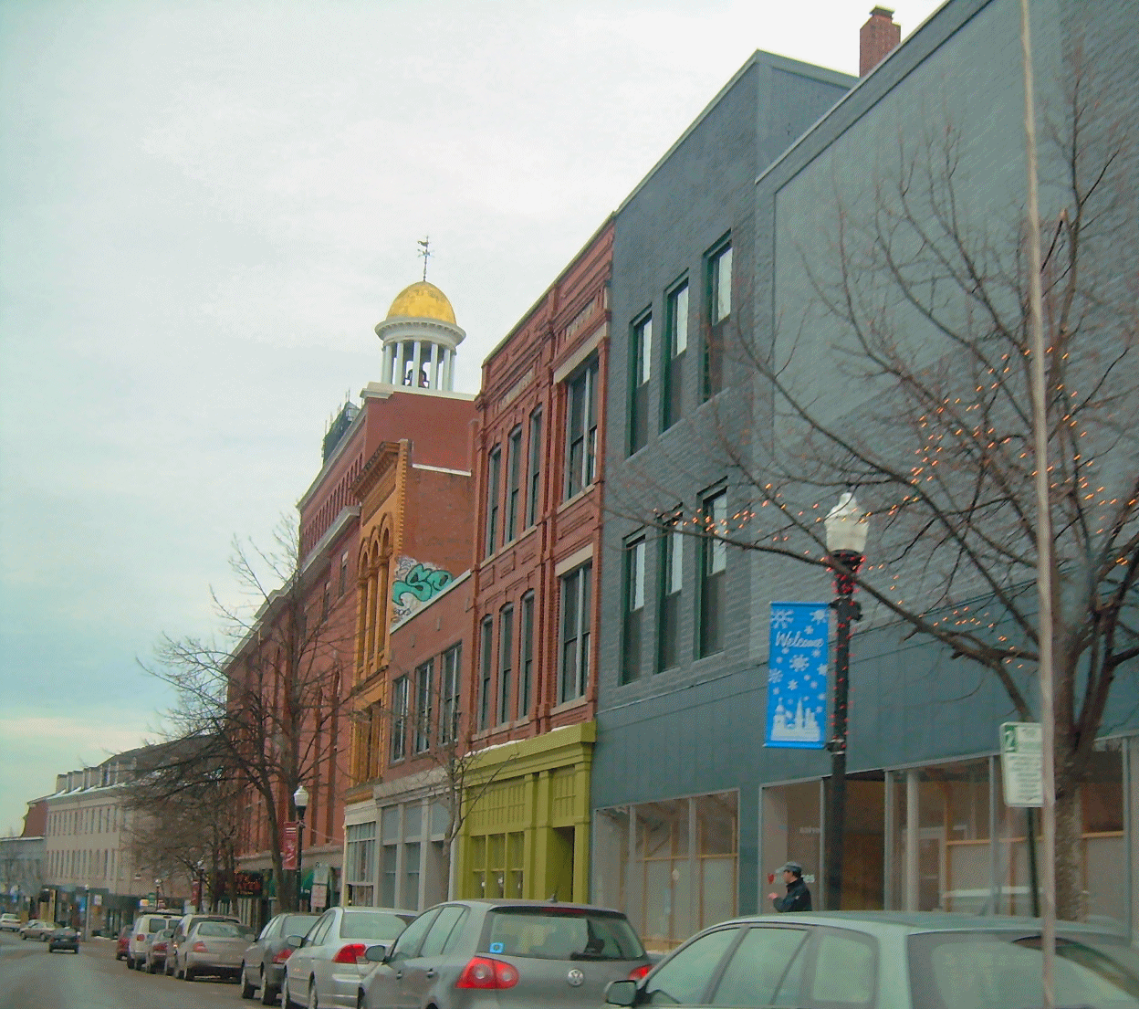 Part of downtown Biddeford, Maine, USA